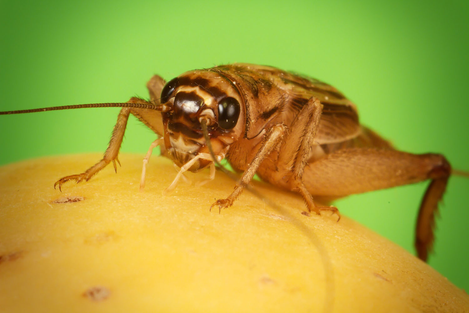 House Cricket